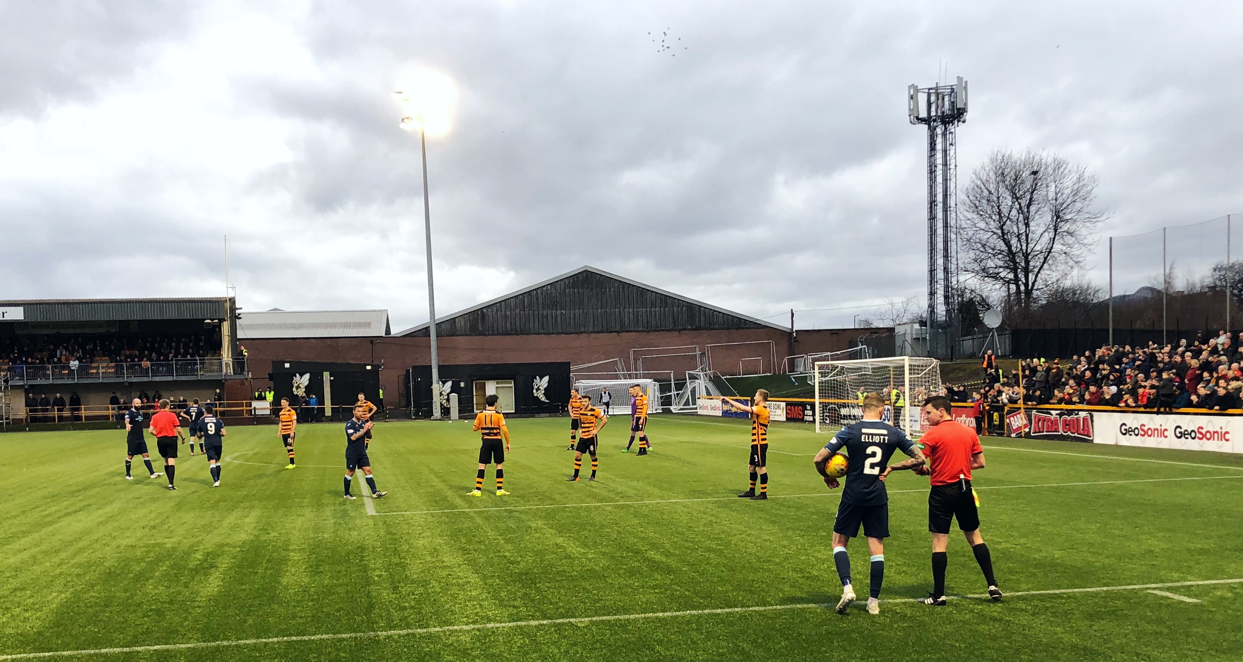 Alloa vs Partick Thistle, Indodrill Stadium, Saturday 16 February 2019, Scottish Championship.